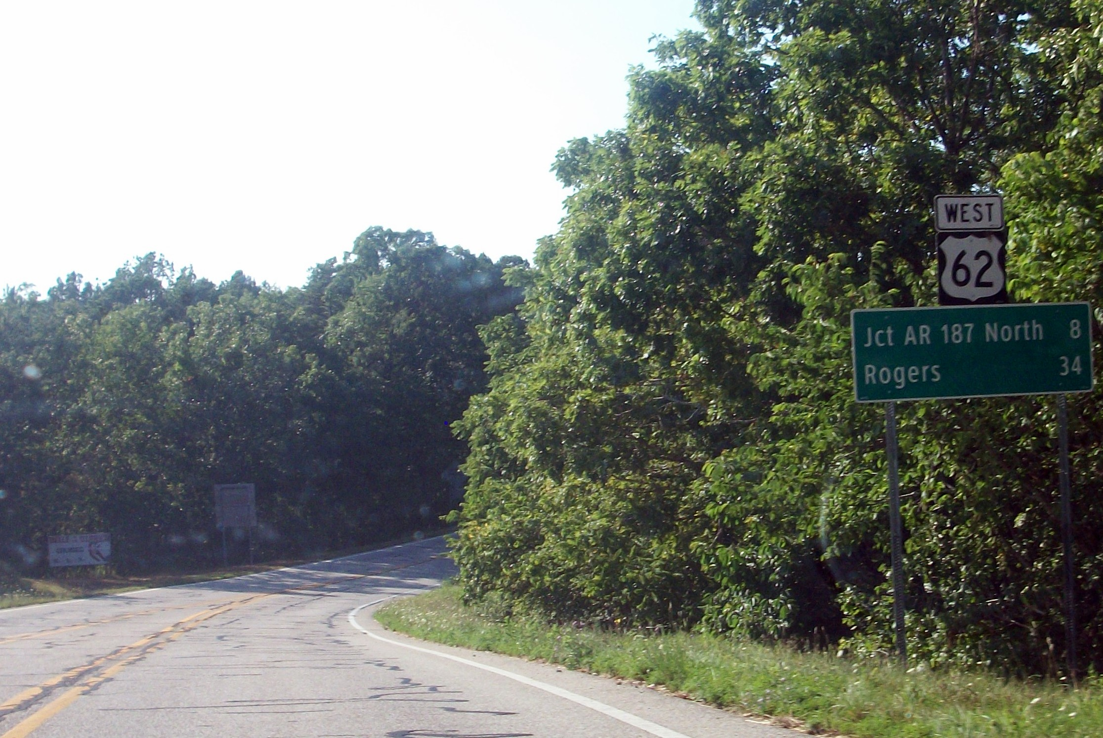 US 62 runs near Busch, Arkansas